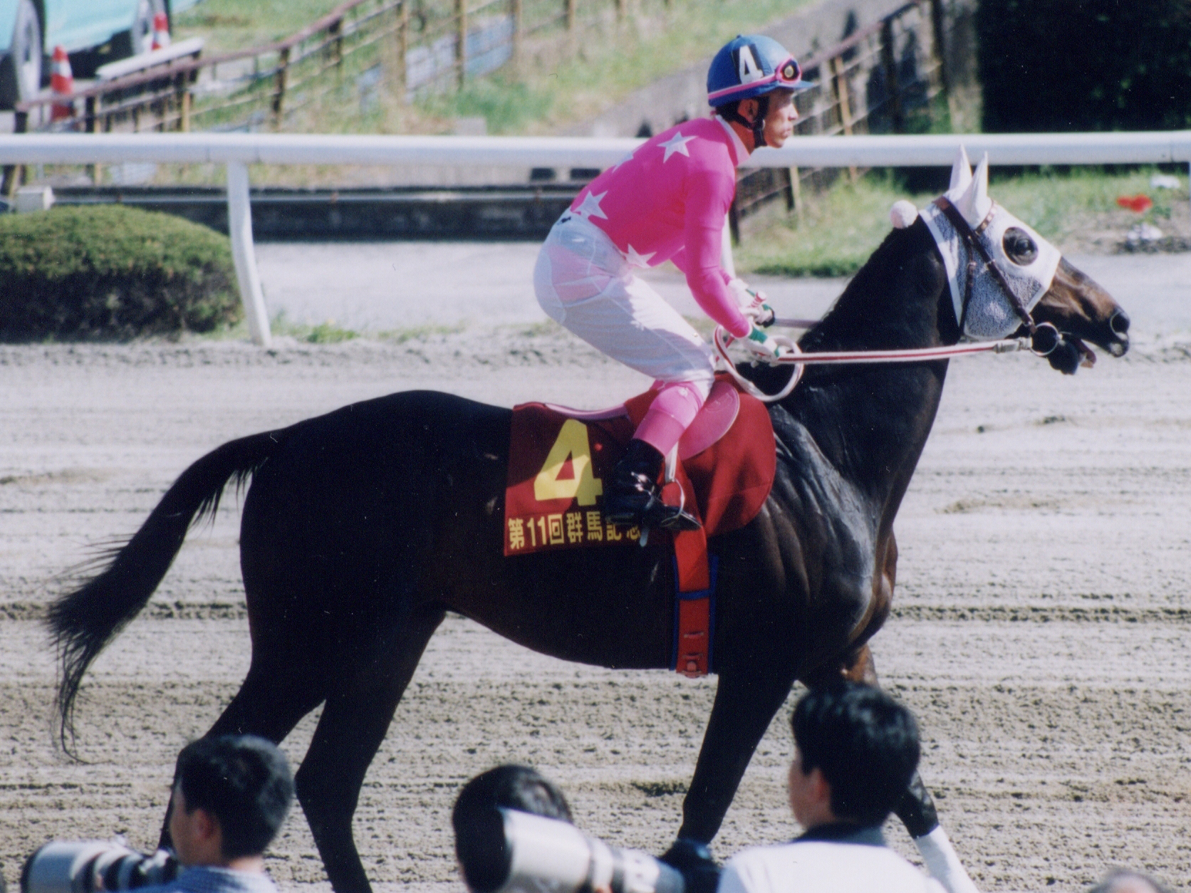 Brian's Roman